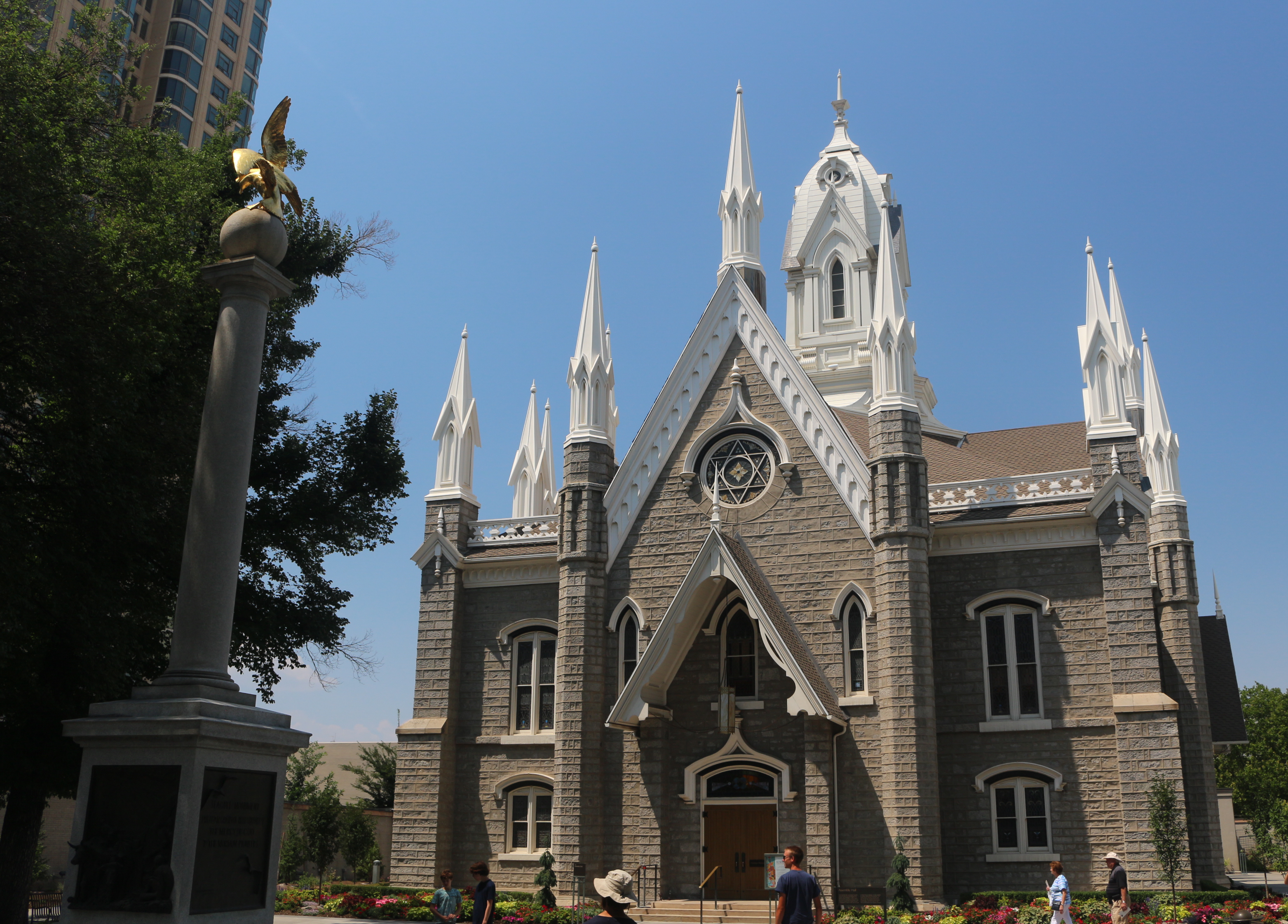 USA, Utah, Salt Lake City, Temple Square, Assembly Hall